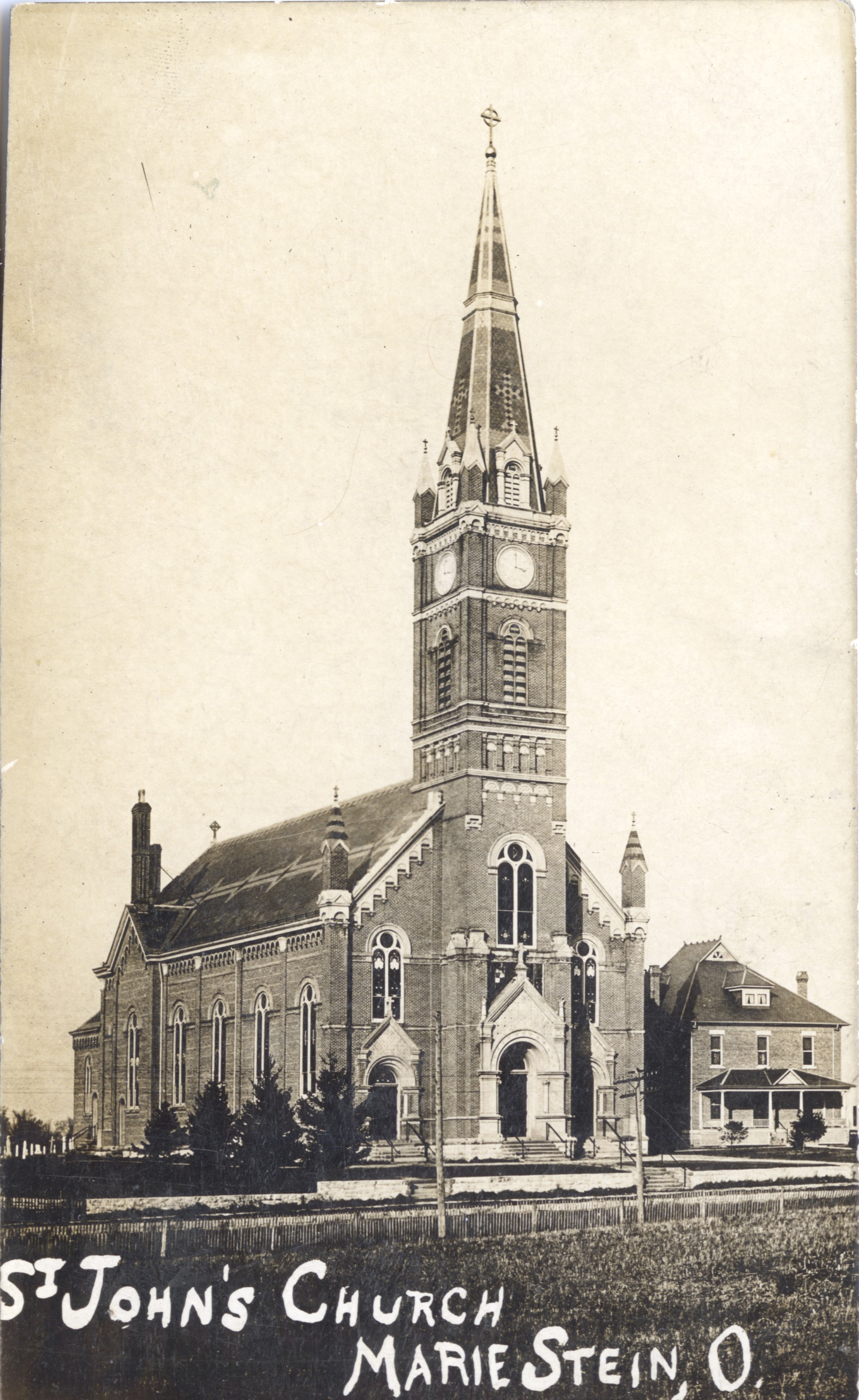 Persistent URL: Subject: Churches; Catholic Churches; Steeples; Ohio--Maria Stein; miami digital collections; bowden postcard collection